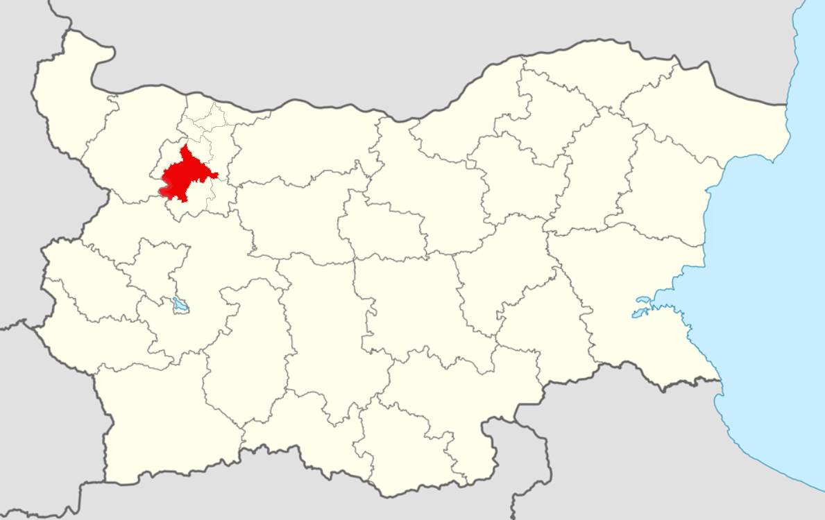 Location map of Vratsa Municipality within Bulgaria and Vratsa Province.